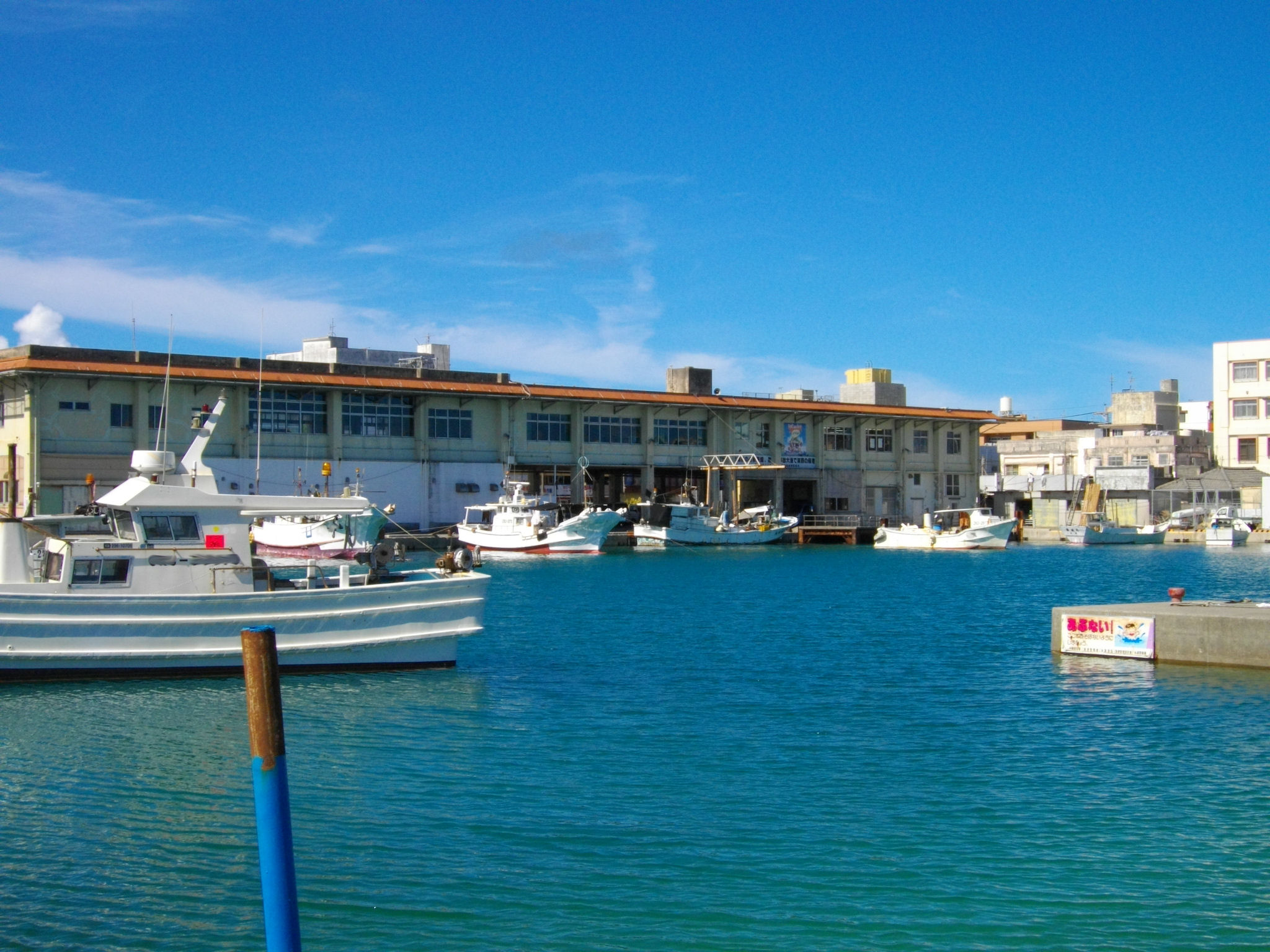 Itoman Port